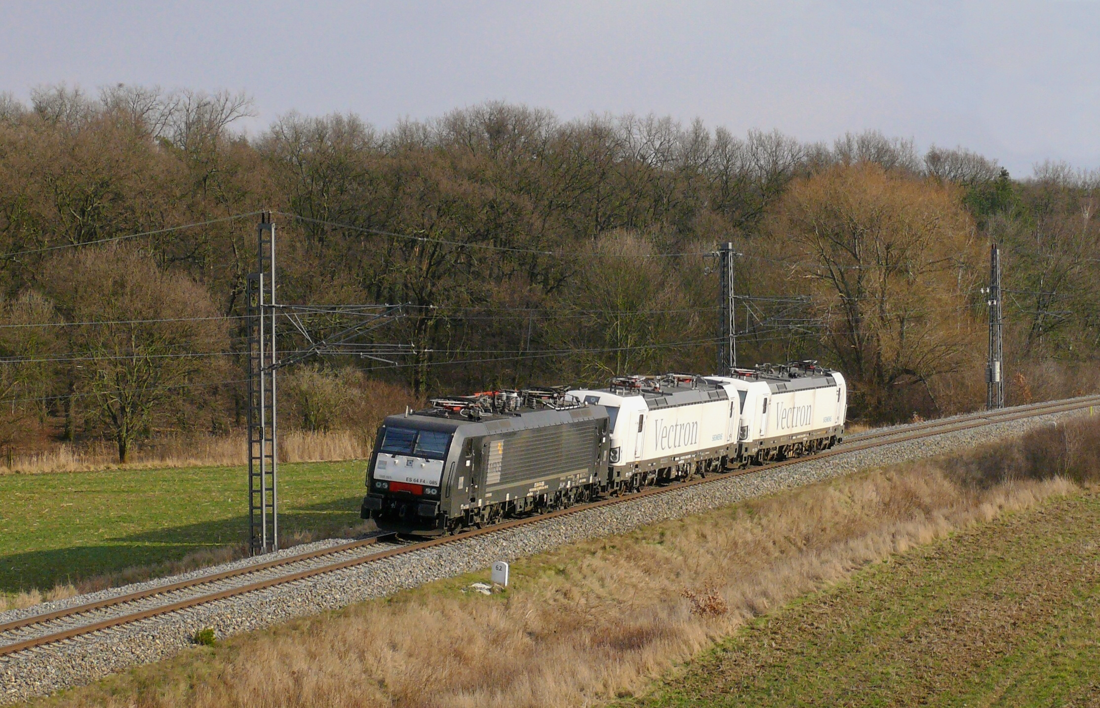 Siemens Vectron DE (diesel-electric) + Siemens ES 64 F 4, Velim railway test circuit (Czech Republic).